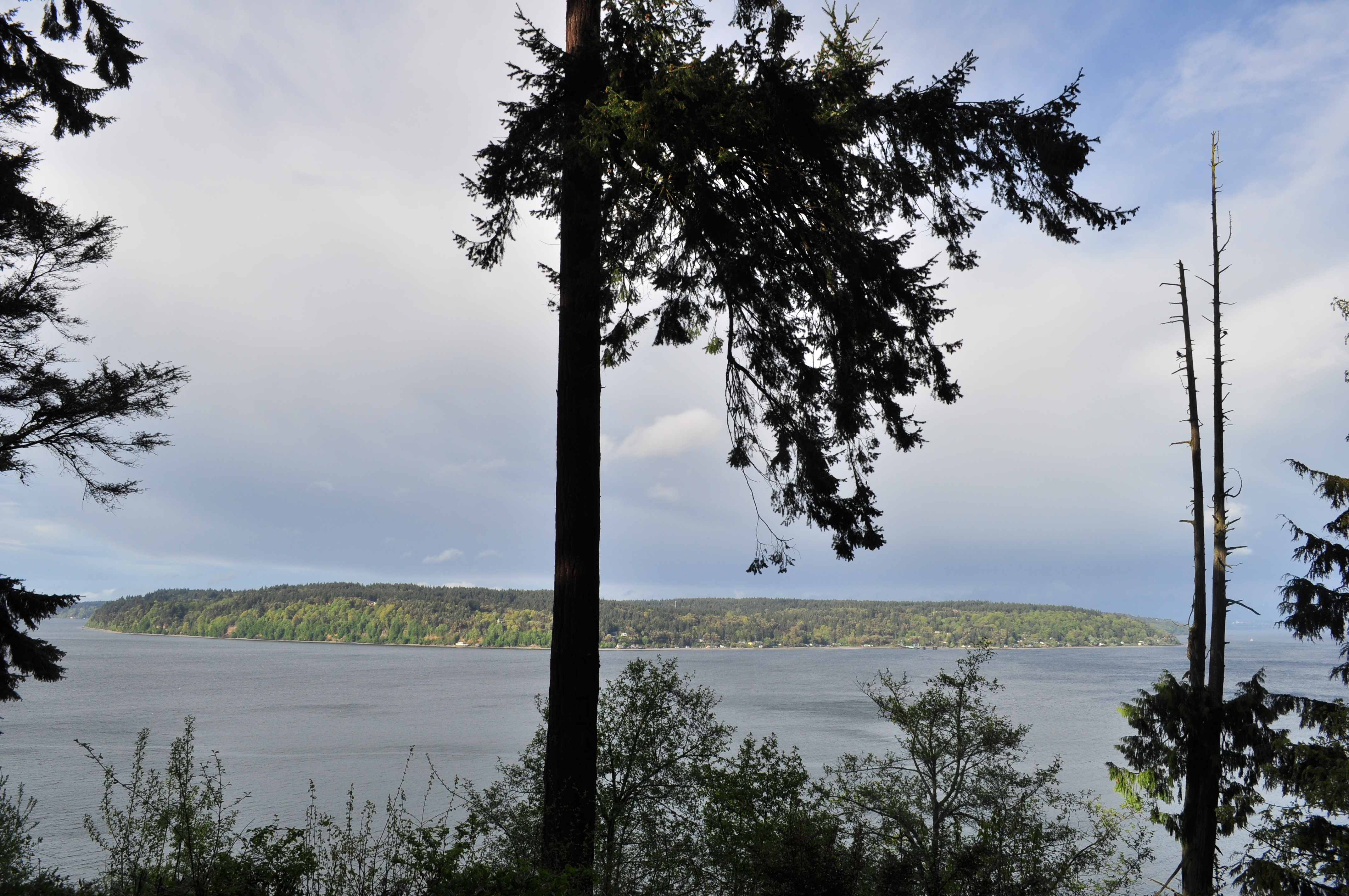 Vashon Island, Washington seen across Dalco Passage from Point Defiance Park, Tacoma, Washington.